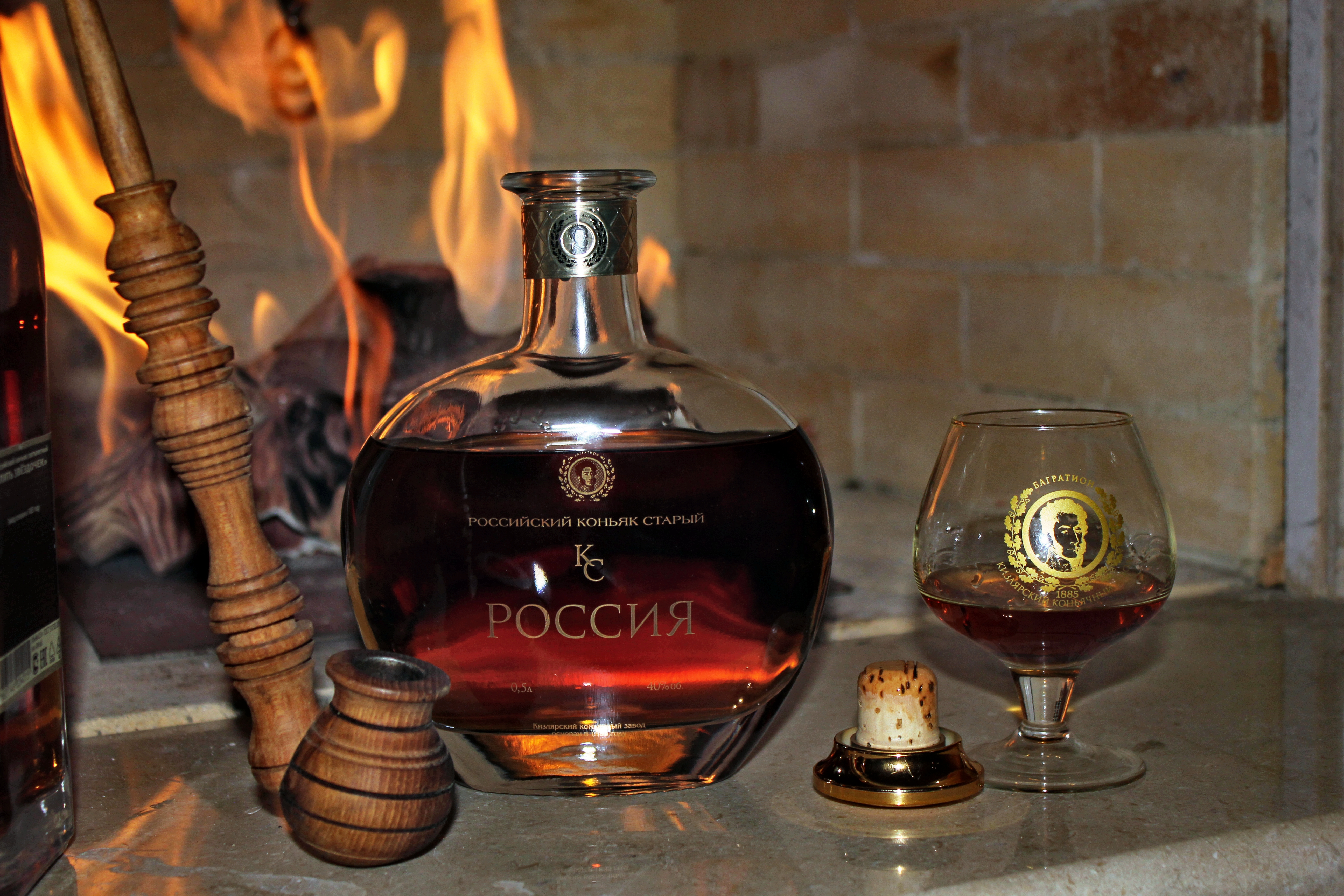 «Кизлярский коньячный завод»